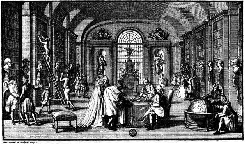 A Library, but surely not of Pococurantes. Engraving used in Voltaire's Candide, or Optimism